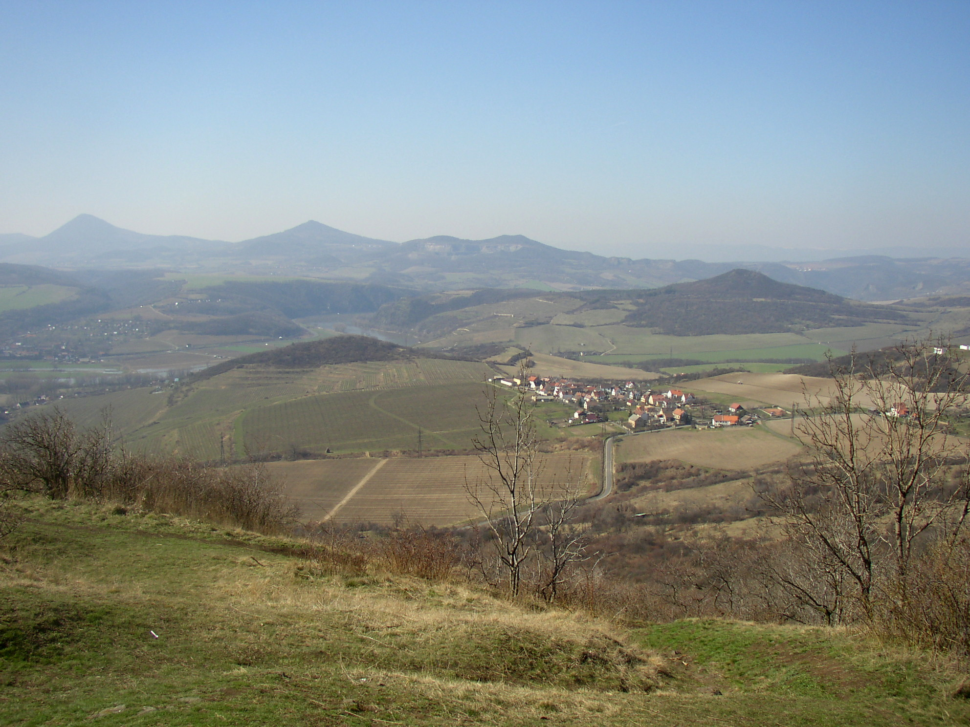 A view from Radobýl (399 m) towards the northwest over village of Michalovice.